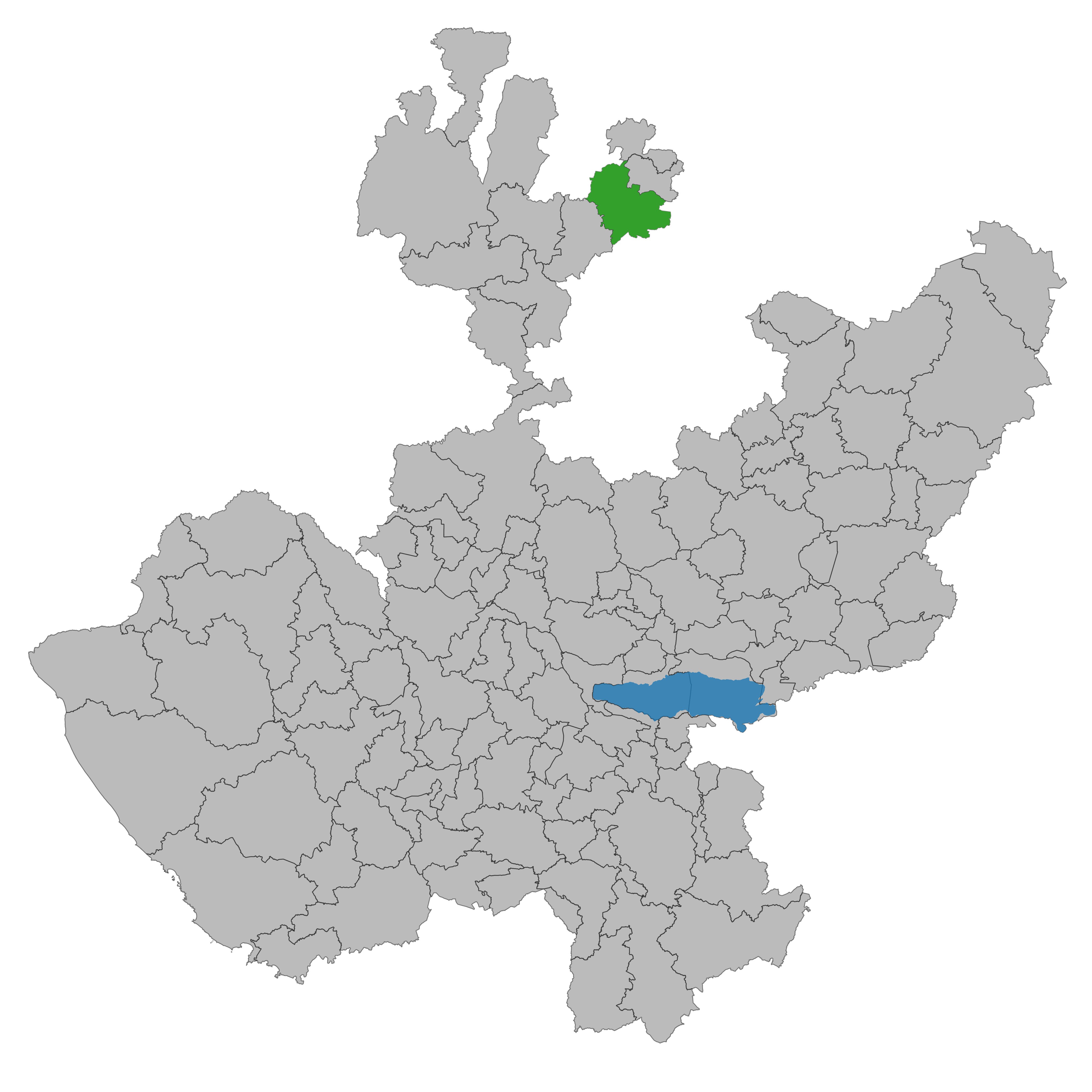 Municipality of Jalisco. Prepared with the software QGIS version 2.8.2 Wien & with information of SCINCE 2010 version 05/2013